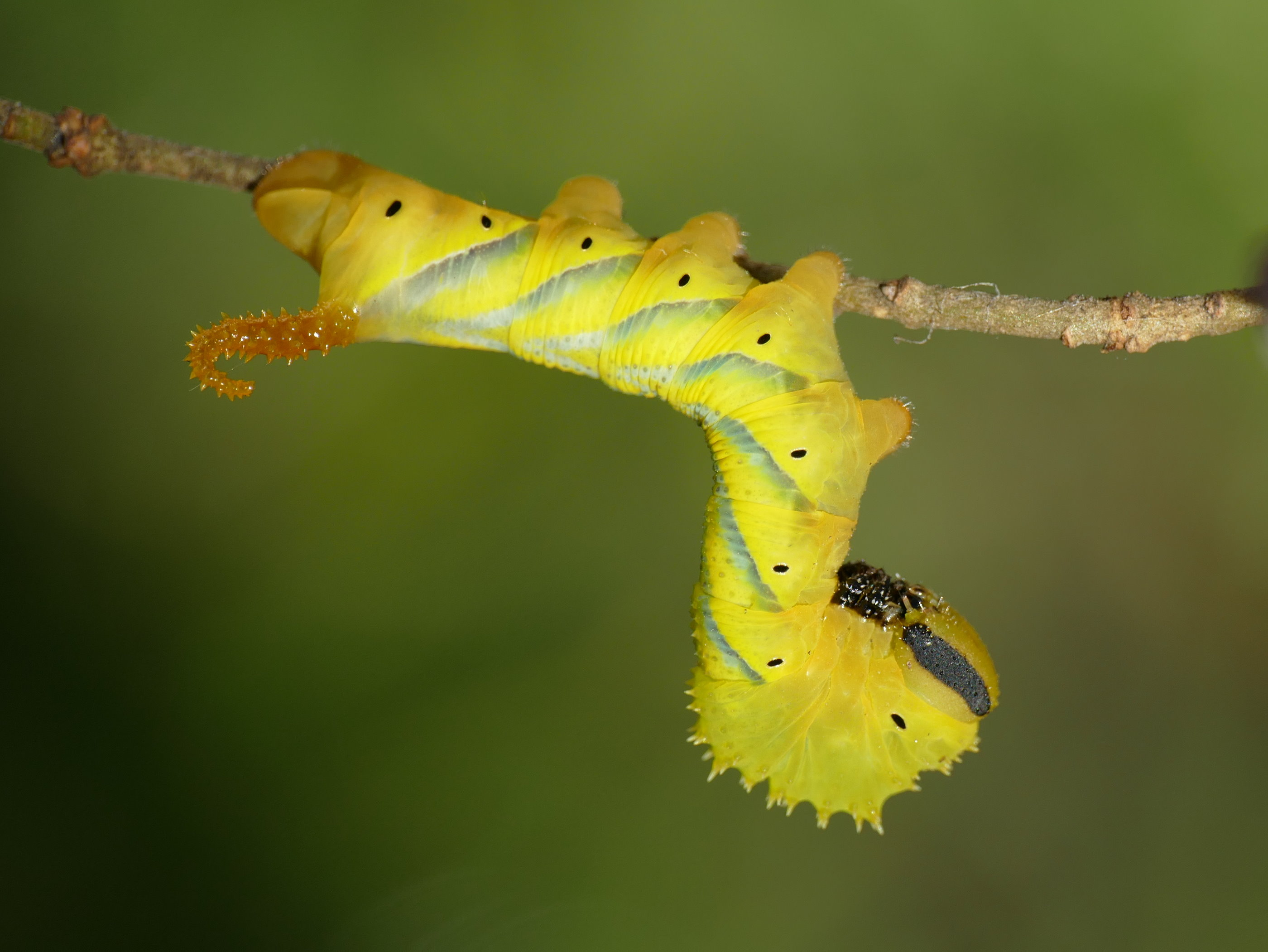 Caterpillar of death hawk moth (Acherontia atropos)